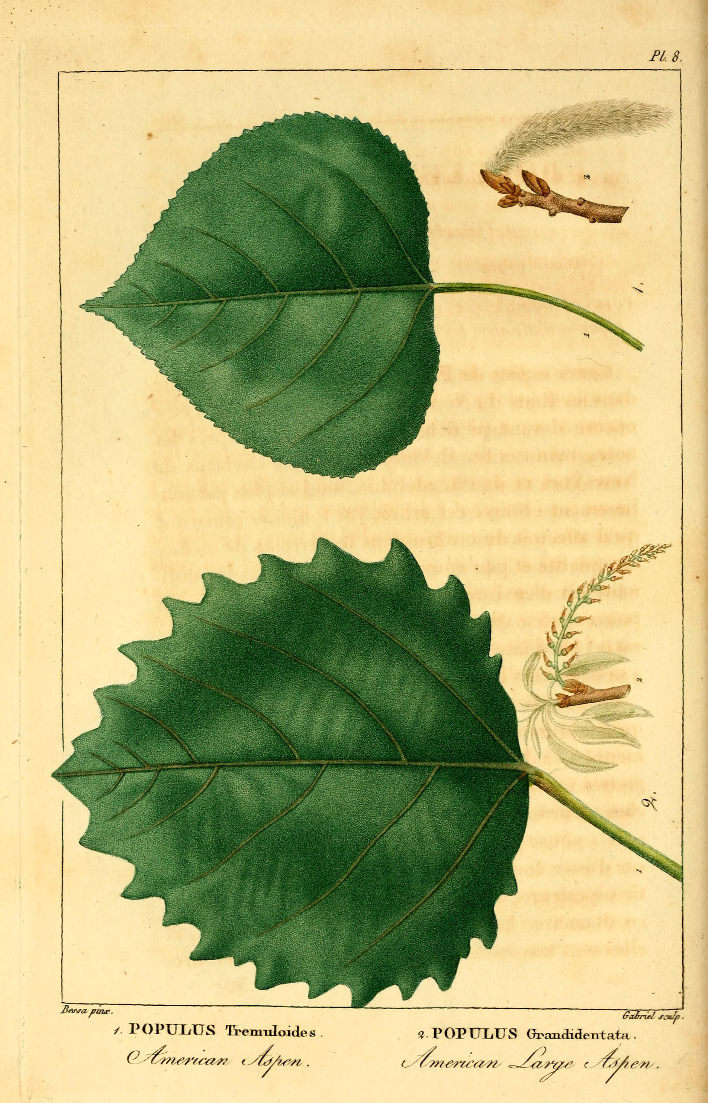 Populus tremuloides (quaking aspen) & Populus grandidentata (big-tooth aspen)